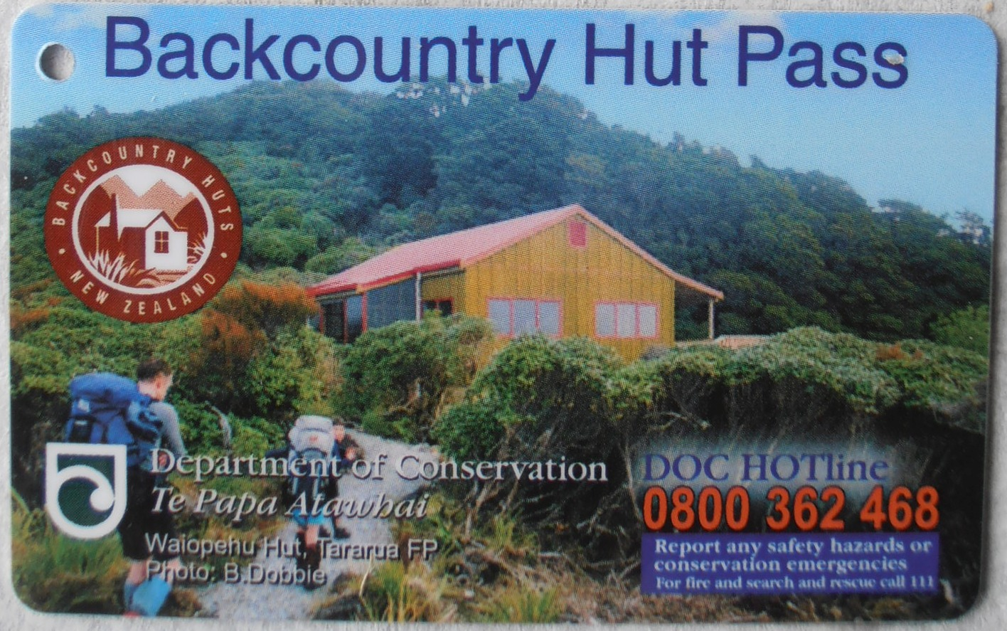 My Backcountry Hut Pass, showing the Waiopehu Hut in the Tararua Forest Park.